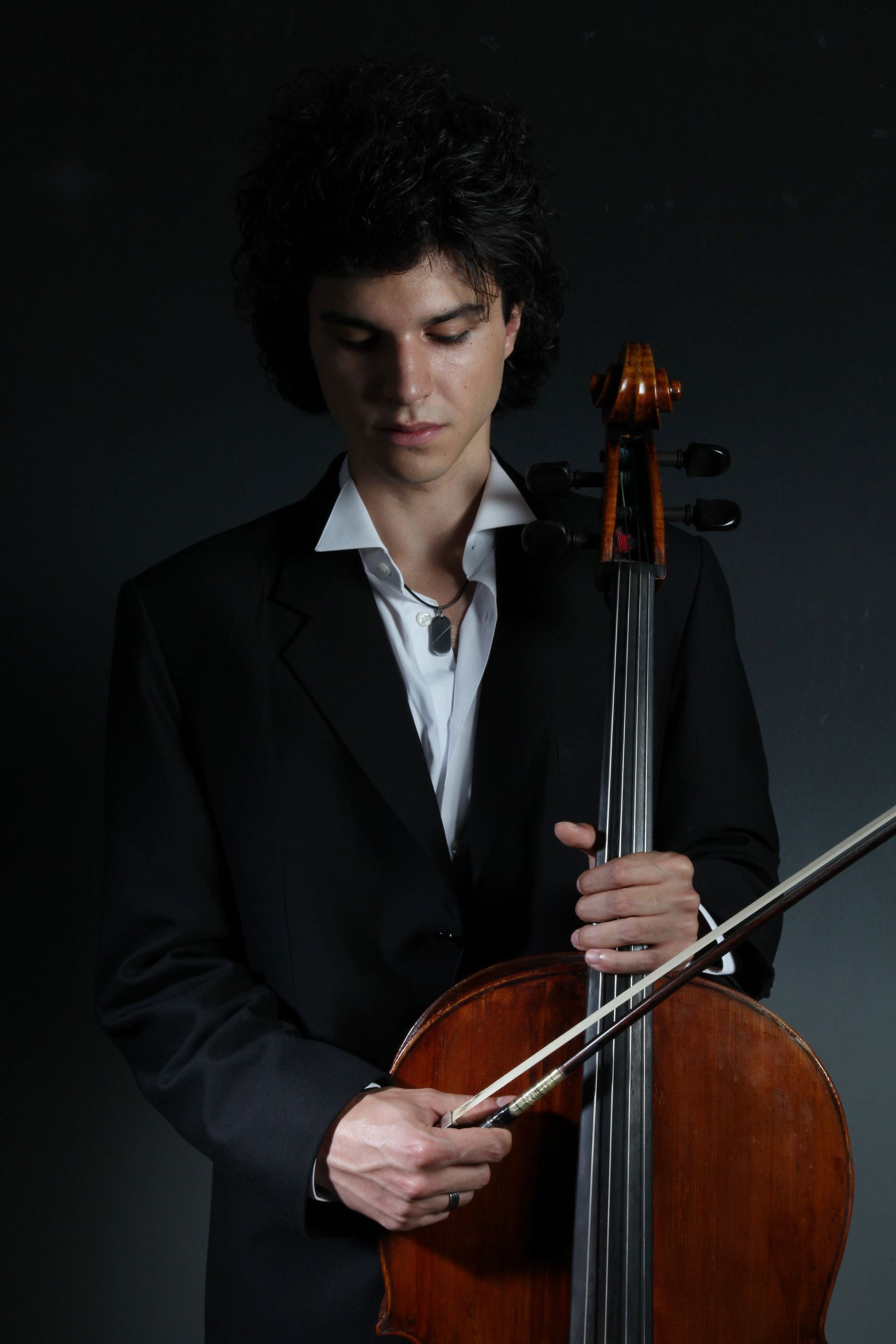 This picture of Jamal with his cello was taken in Ankara, Turkey to be used for publicity reasons, programme notes, website, journals, newspapers etc. This picture can be found as his profile picture on Facebook, Twitter and his personal website.